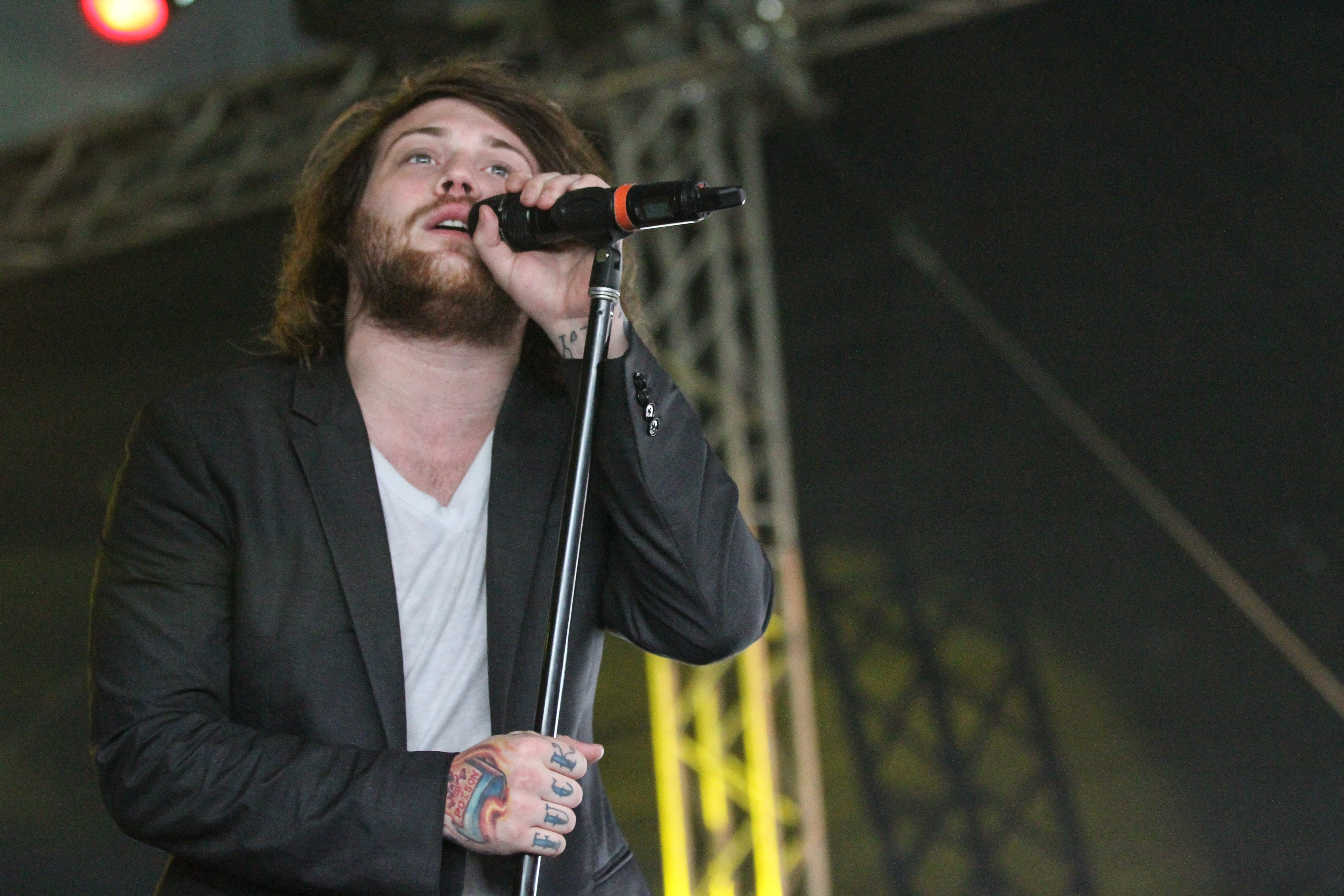 Festivalsommer This photo was created with the support of donations to Wikimedia Deutschland in the context of the CPB project "Festival Summer".